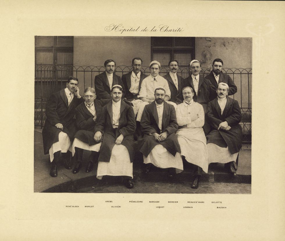 Hôpital de la Charité. Krebs - Piedelievre - Marchak - Mercier - Meaux Saint Marc - Delotte - Rene Bloch - Morlot - Olivieri - Luquet - Legrain - Baudain - Livre d'or de l'Internat des hôpitaux de Paris 1914-1919 Bibliothèque interuniversitaire de Santé Native nameBibliothèque interuniversitaire de santéLocationParisCoordinates48° 51′ 04.32″ N, 2° 20′ 26.52″ E Established2011Web page control : Q867925 VIAF: 262688900 ISNI: 0000 0001 2175 4440 SUDOC: 169813738 BNF: 16628732x institution QS:P195,Q867925